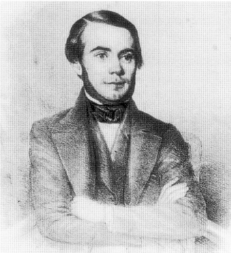 Alois Taux, lino print by M. Bernisius before 1847